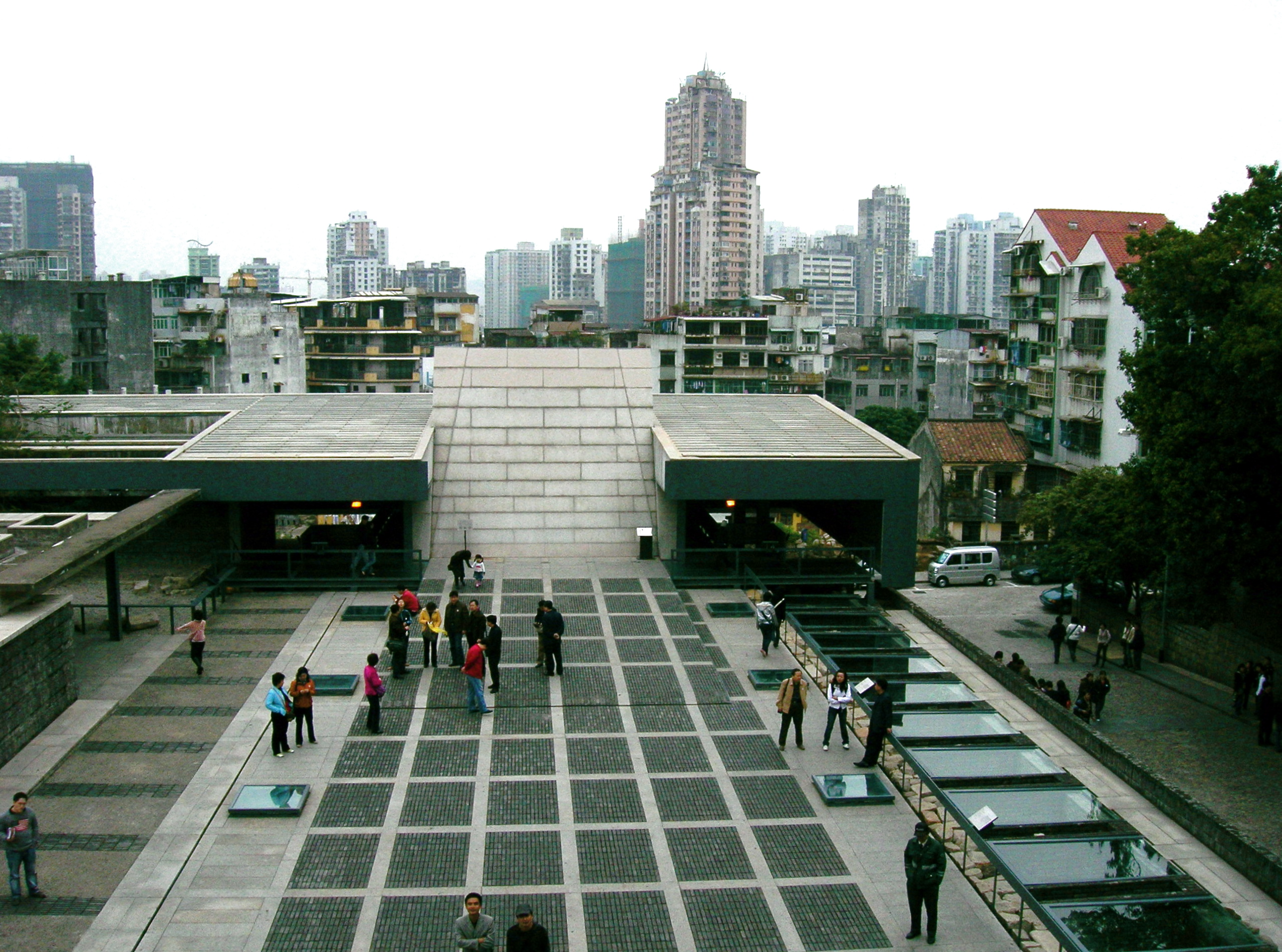 Behind the façade of St. Paul's in Macau